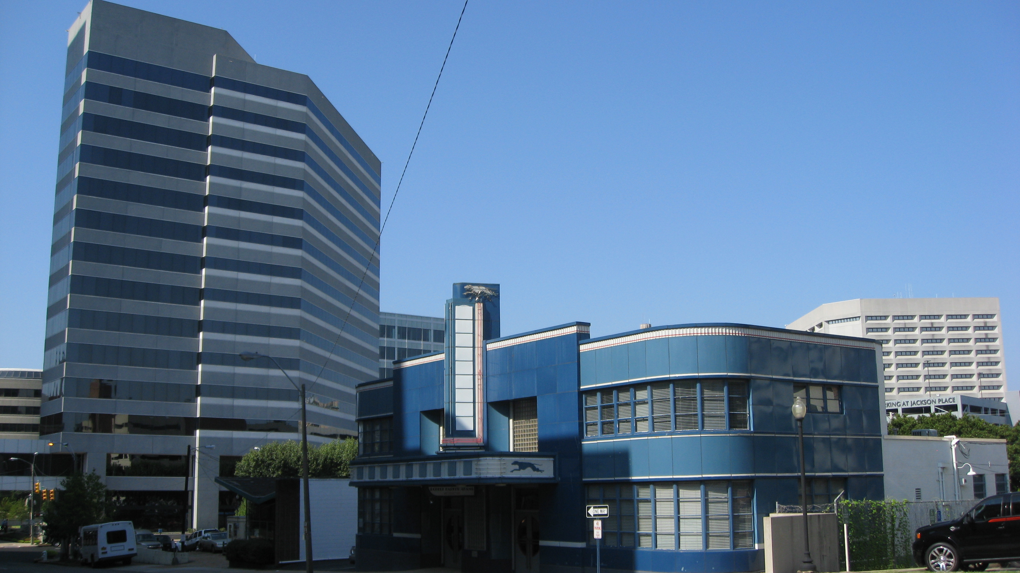 Funky old Greyhound station